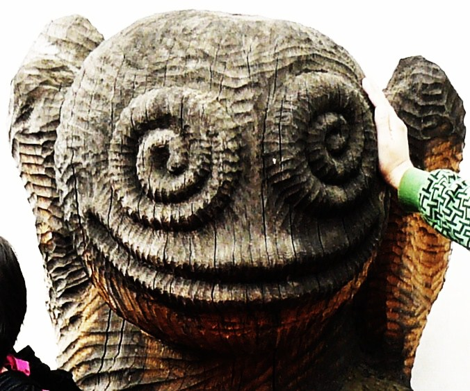 Sculpture OKOUNIK, Portmoneum, Litomysl.